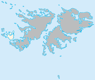 Weddell Island in the Falkland Islands.